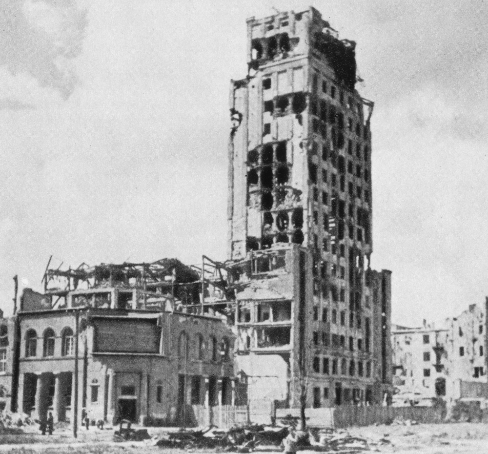 Prudential, first Warsaw (capital of Poland) skyscraper, destroyed during the Warsaw Uprising in 1944. Photo taken in 1945